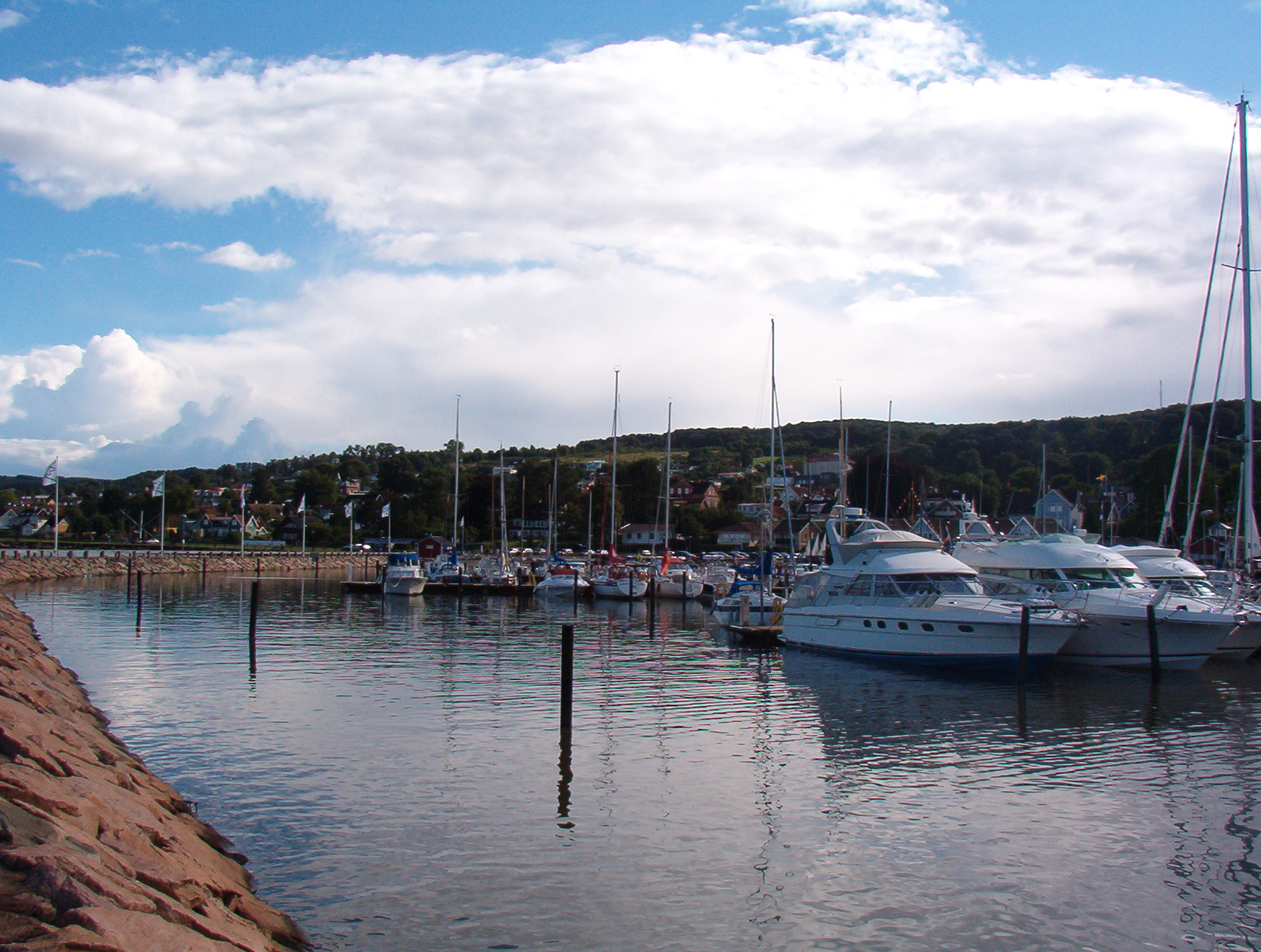 Date: July 2005